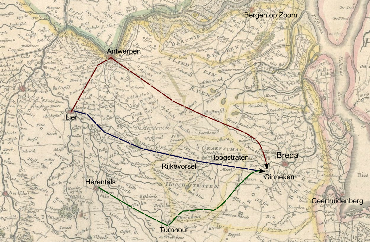 Siege of Breda (1624-1625) Supply of consumption goods and military goods from the warehouses in Lier and Herentals to Breda. The red route was used till 23rd of October 1624. The blue route was used from the 23rd of October.